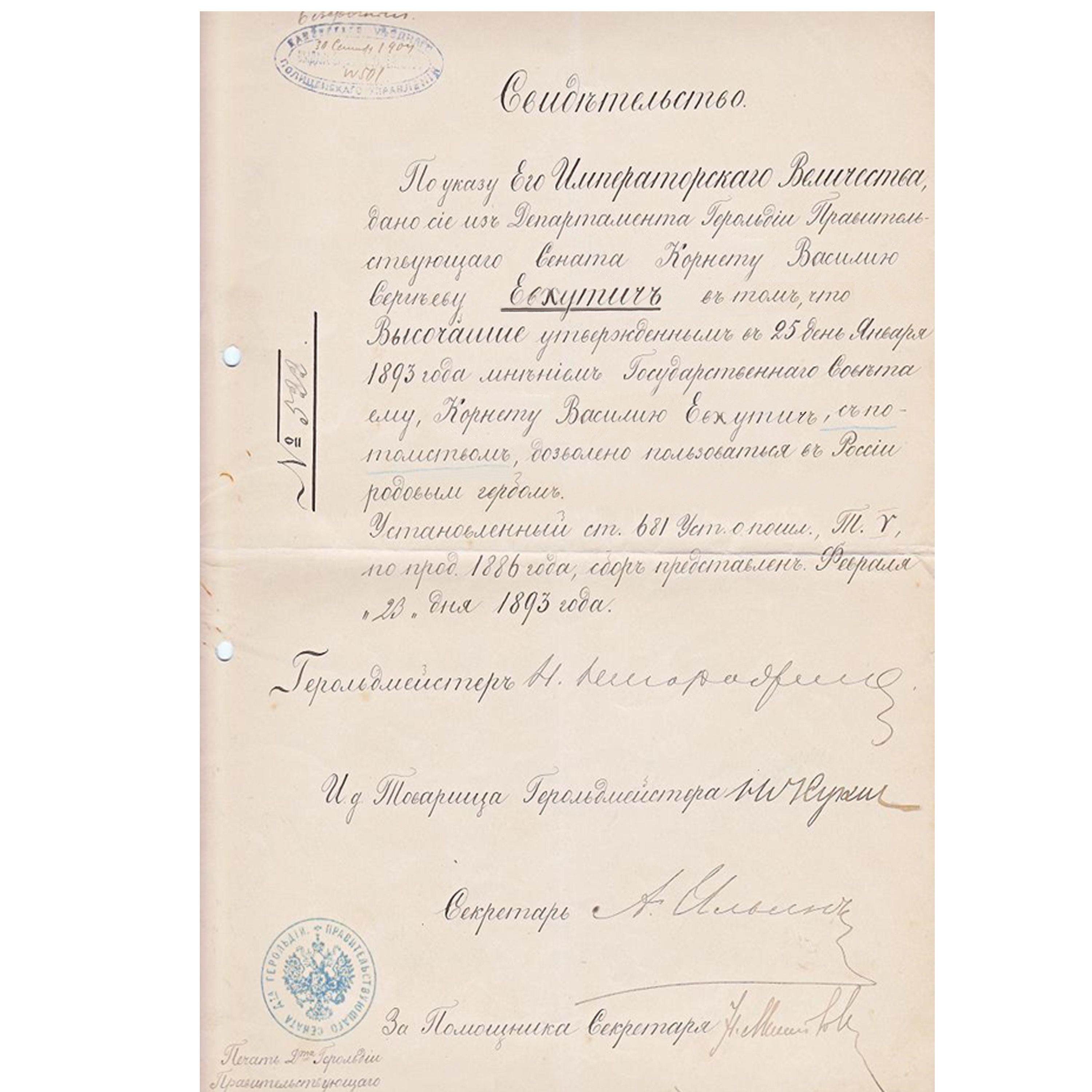 родословная